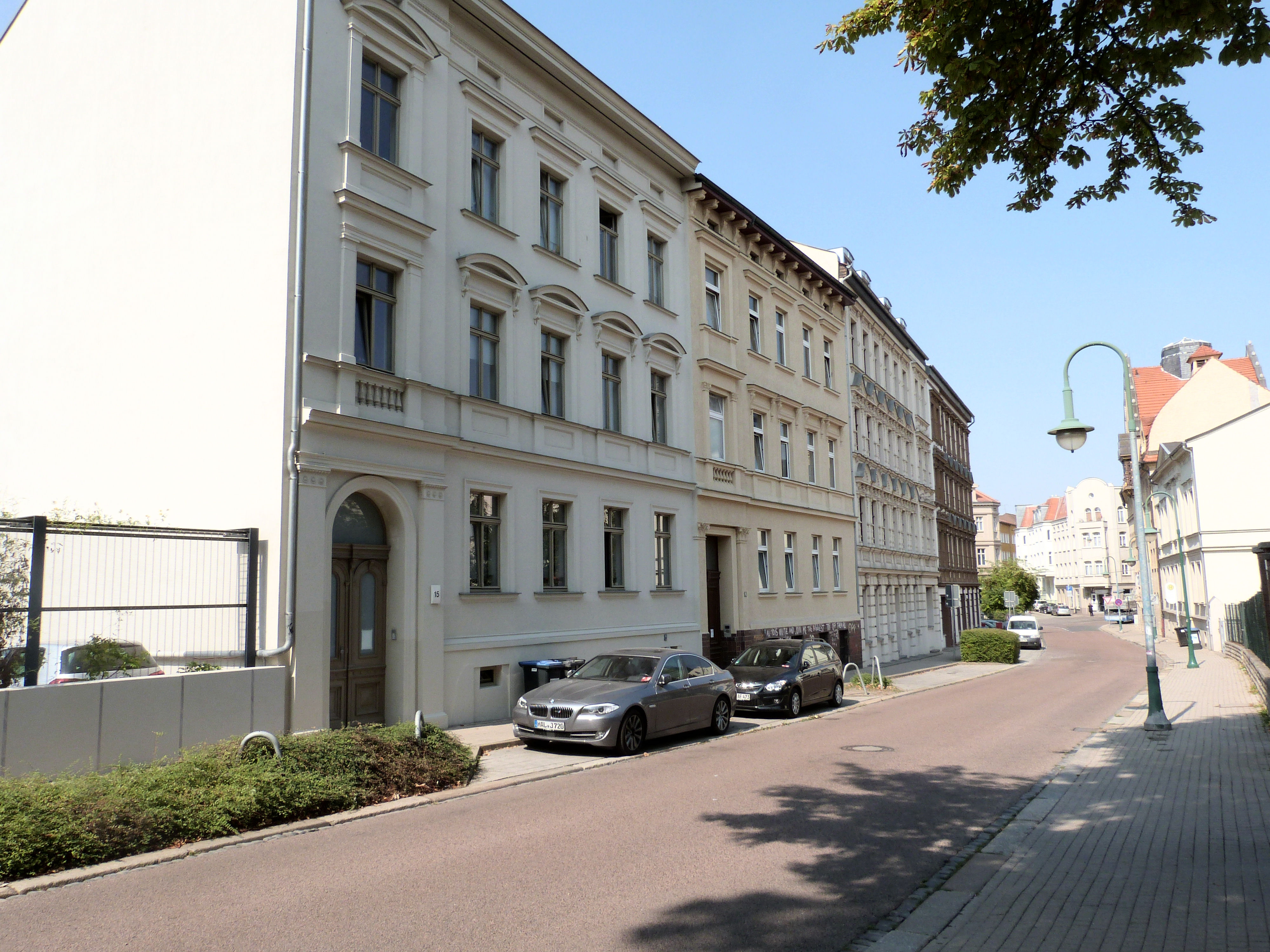 Street Schimmelstraße in Halle (Saale)